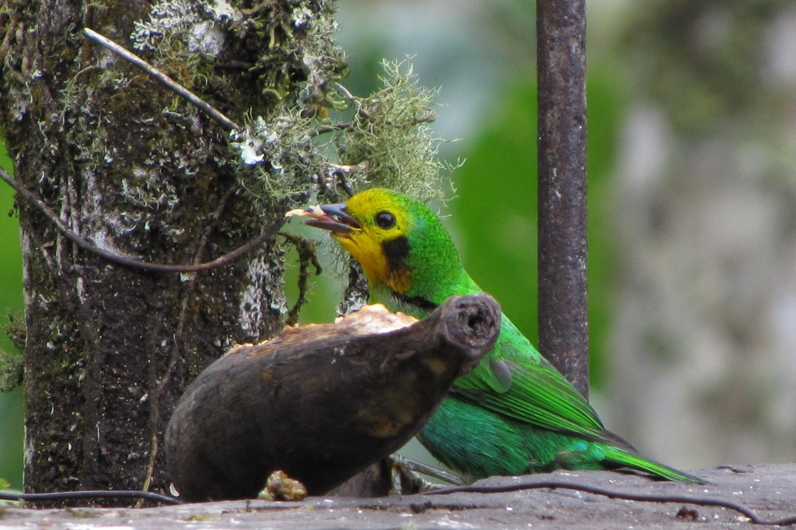 Female Chlorochrysa nitidissima feeding near the Bitaco Forest Reserve, Valle del Cauca, Colombia